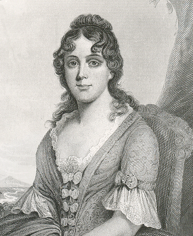 Martha Jefferson Randolph, daughter of Thomas Jefferson, informal First Lady, Smithsonian Institution